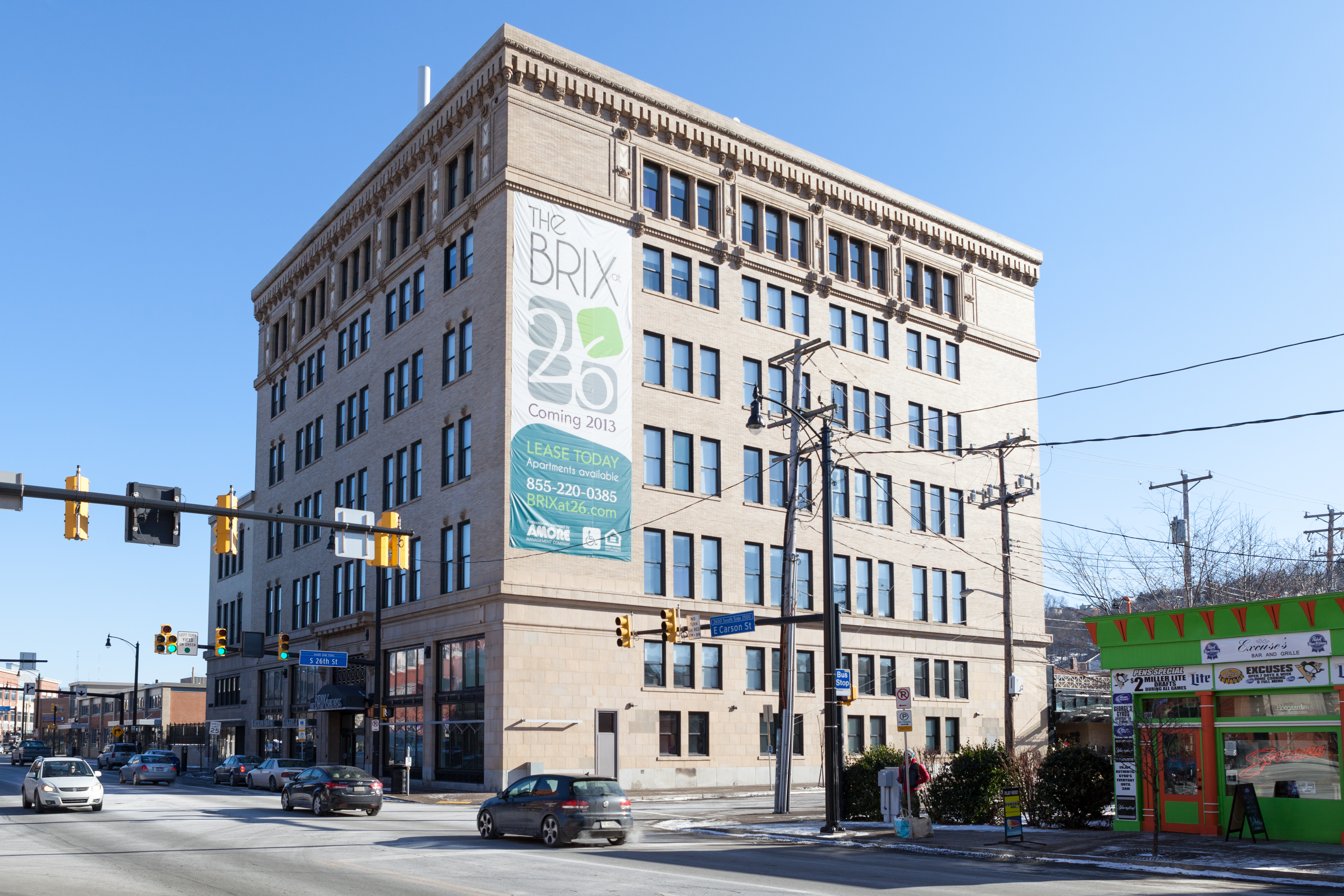 The west and north facades of the Pittsburgh Mercantile Company Building (1907) located in the South Side Flats neighborhood in Pittsburgh, Pennsylvania.